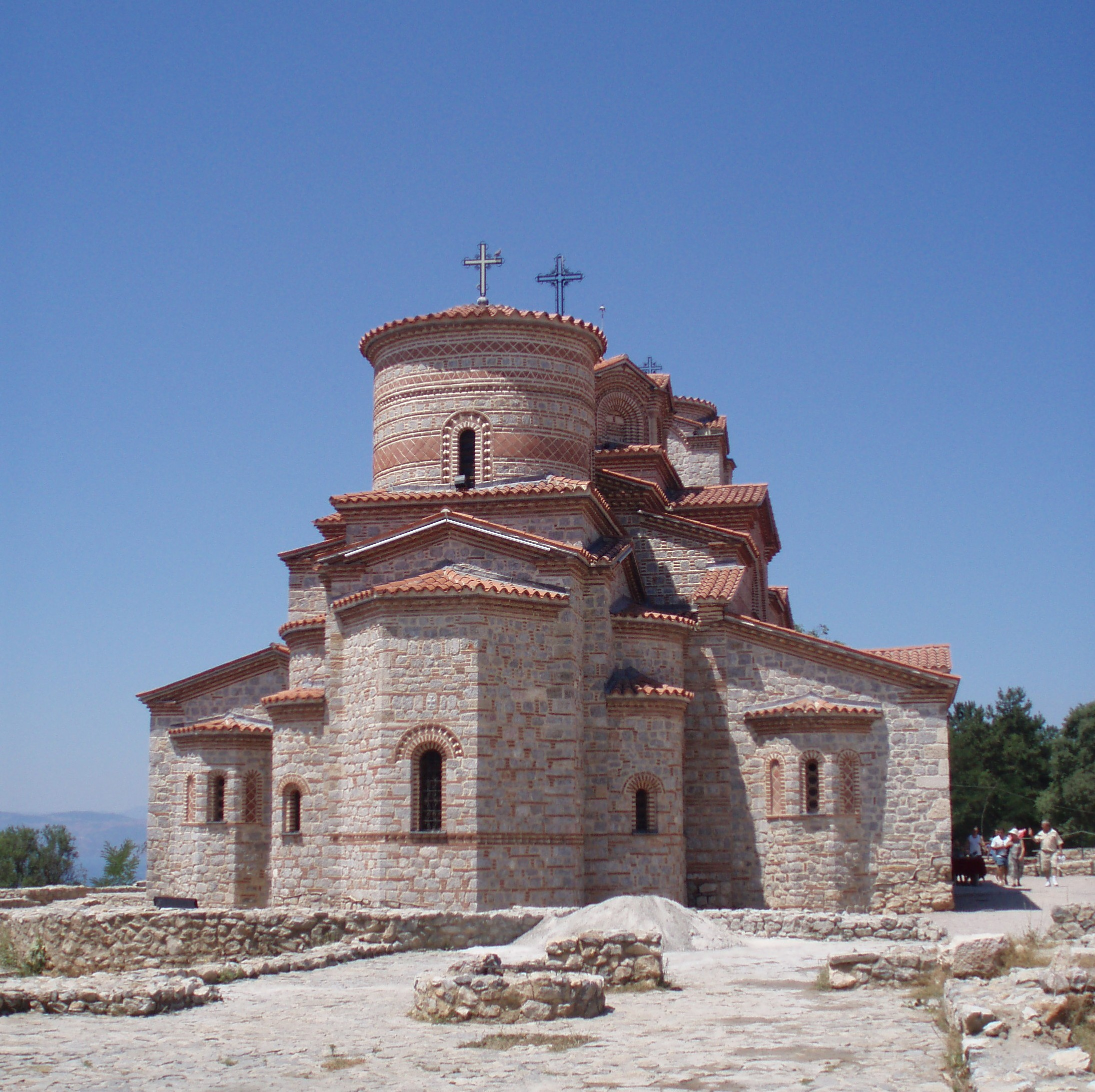 Church Saint Clement and Pantheleimon in Ohrid, Republic of Macedonia